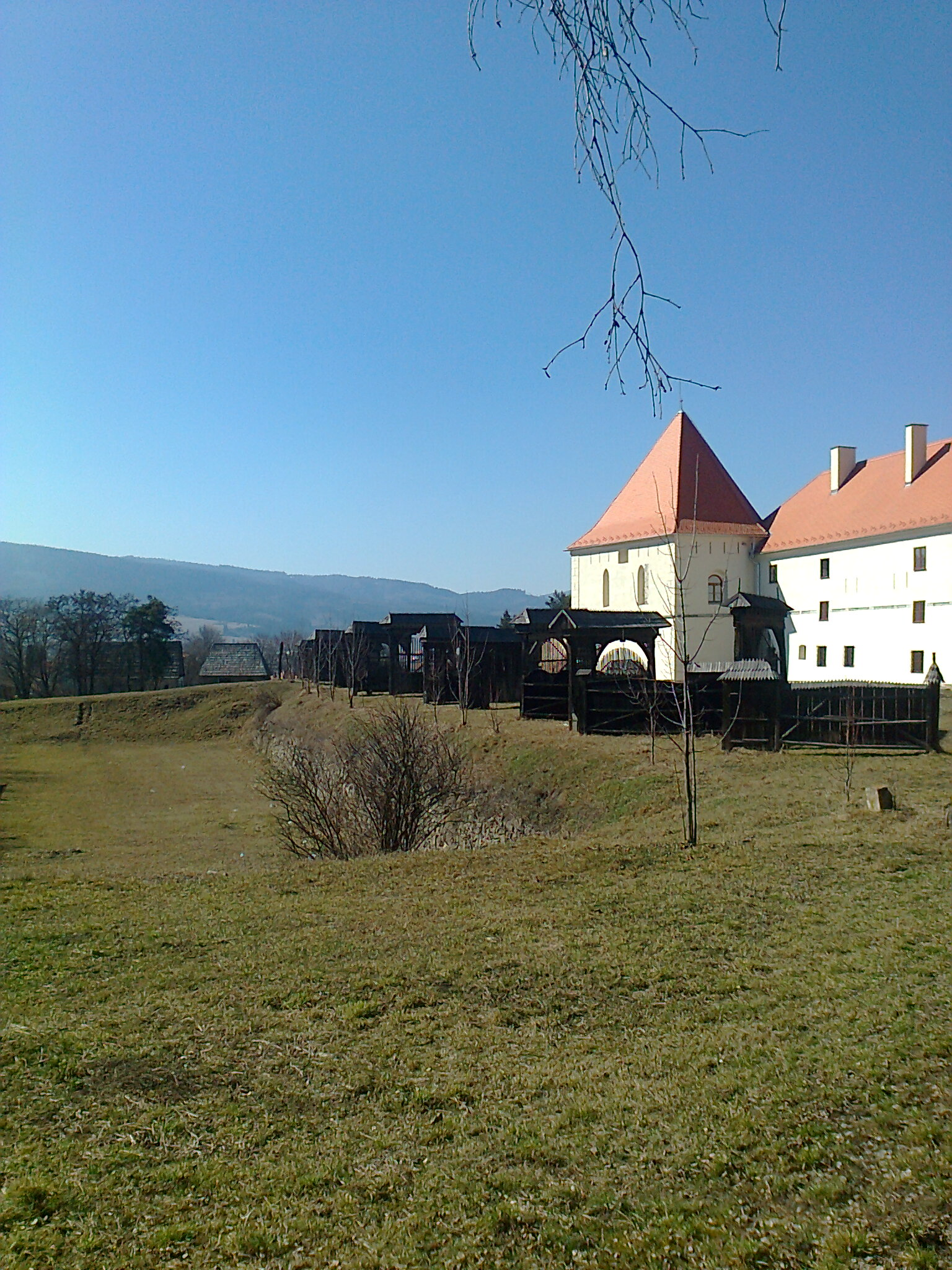 The Mikó Castle in Csíkszereda (Miercurea Ciuc, Romania)